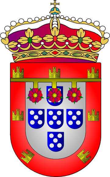 Arms of the Portuguese Prince of Beira. Made by JSobral